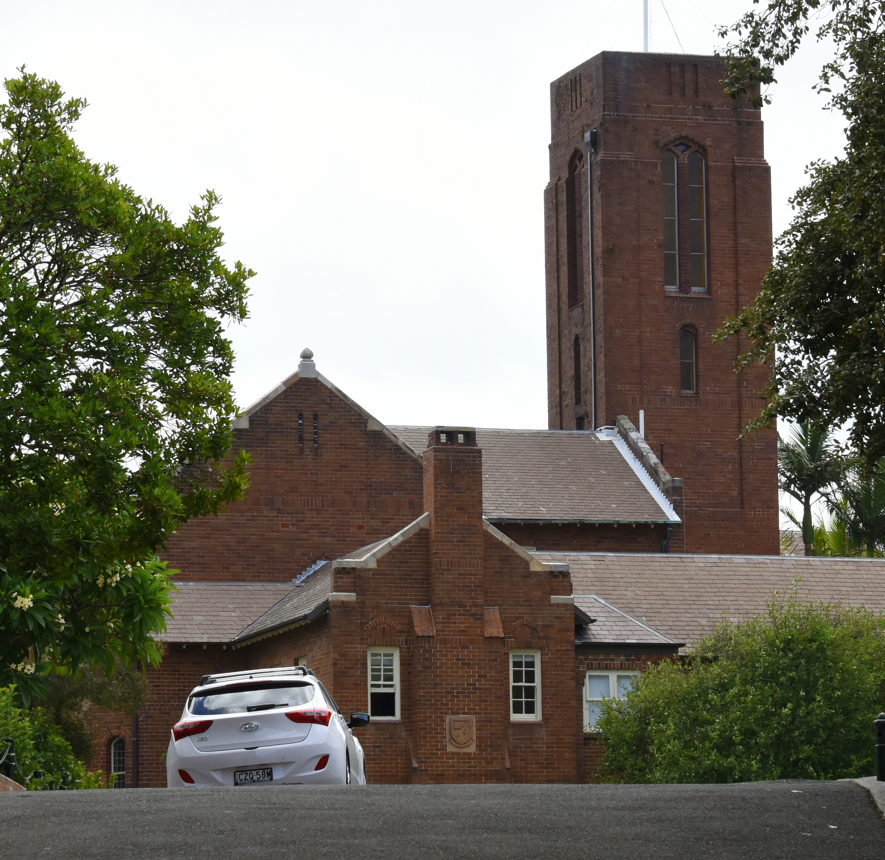 Shore school, North Sydney, Sydney